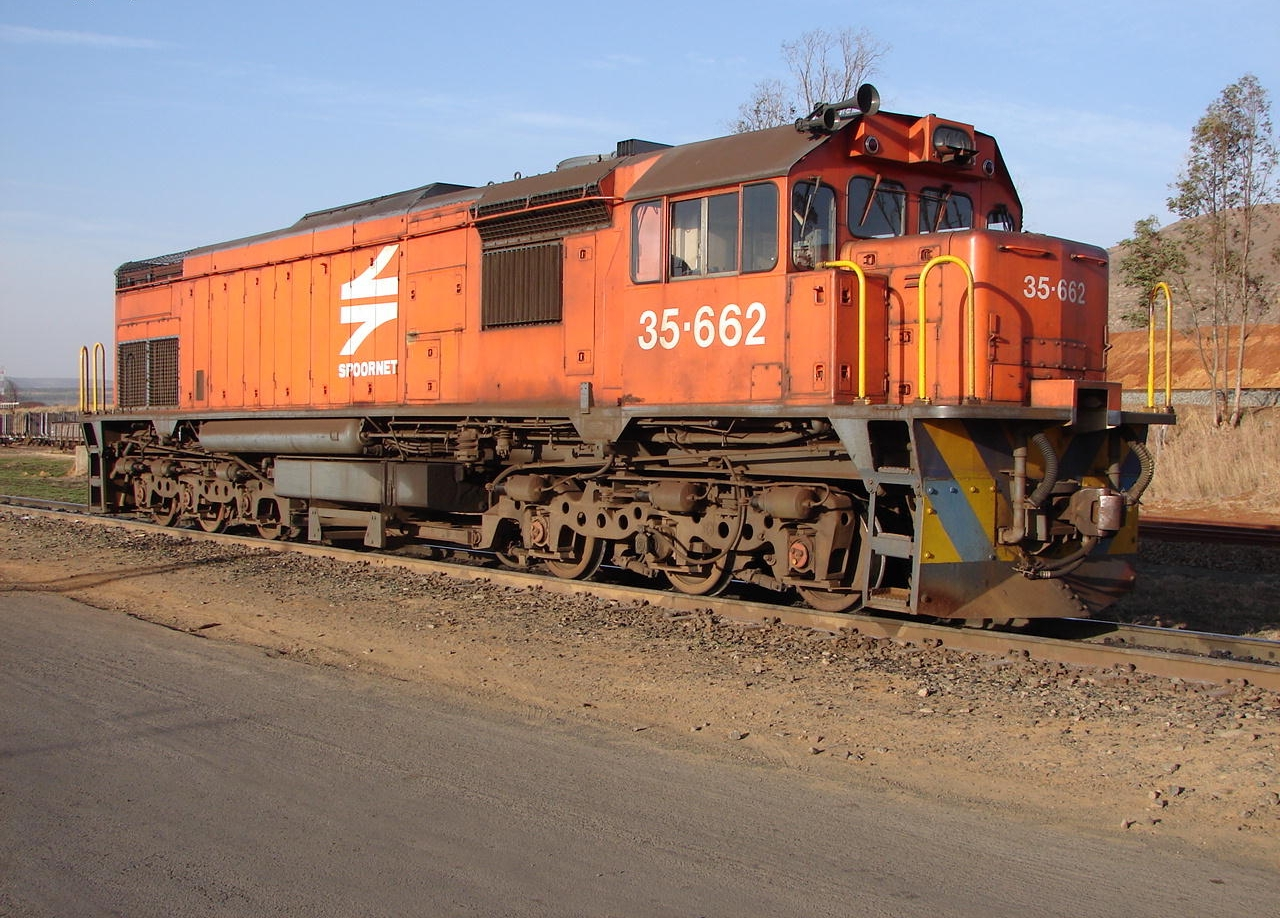 South African Class 35-600 35-662 Builder's Number: EMD 110-12 Type: EMD GT18MC Location: Vryheid, Kwa-Zulu Natal